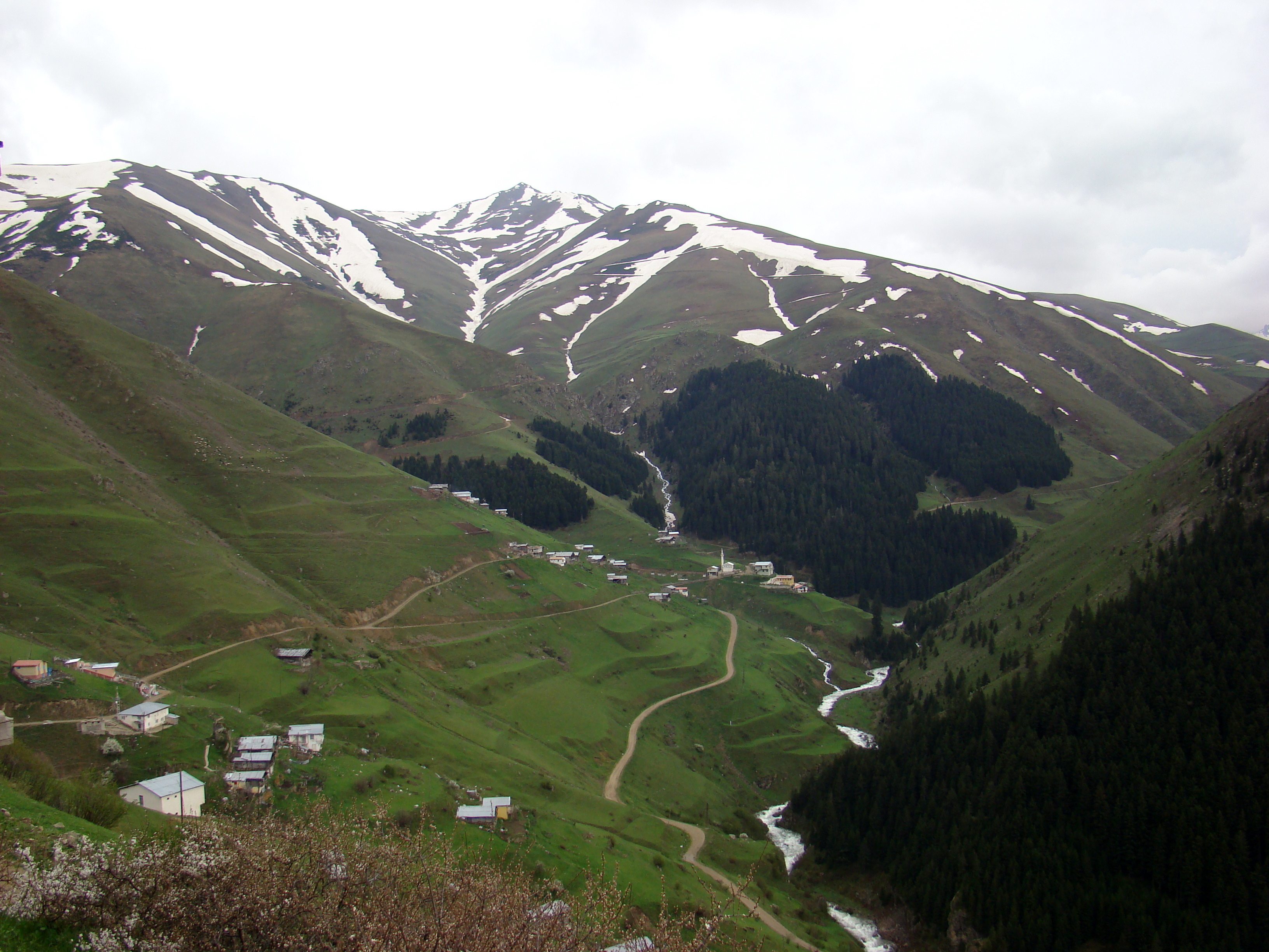 A variety of endemic-type flowers exist in Anzer plateau (aka, Ballıköy plateau). This upland is located in the southeast of İkizdere district of Rize, one of the major cities in the Blacksea region of Turkey. The "Anzer honey", famous with its curative powers, is produced here.